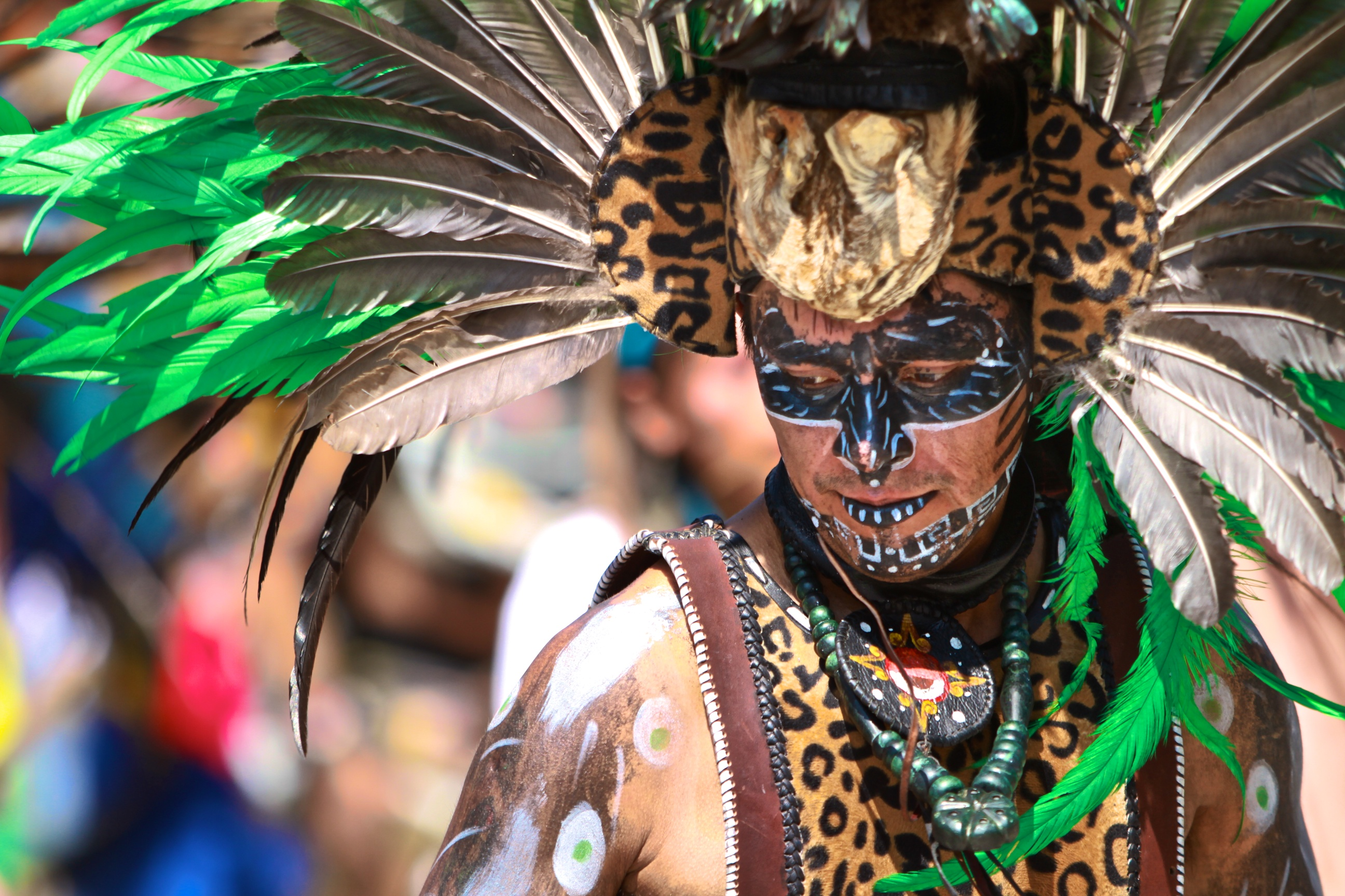 Mexica Dancing in Ixcateopan. Dancing close to the tomb of the last Azteca Emperor Cuauhtemoc